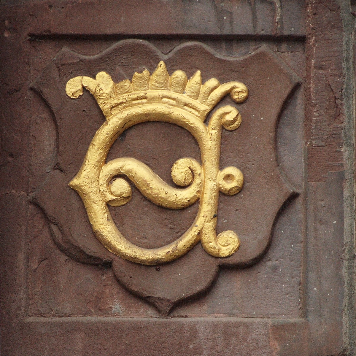 Town mark "E with crown" at the right tower from 1593 of the town hall in Einbeck, Germany.